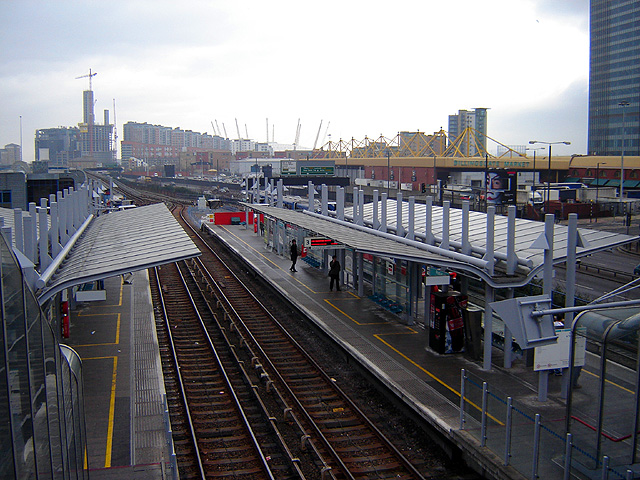 Poplar DLR Station looking southeast, Poplar, Tower Hamlets, London. 4 February 2006. Photographer: Fin Fahey.